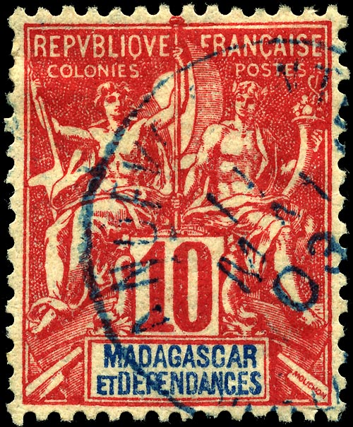 Madagascar 10c stamp of 1900